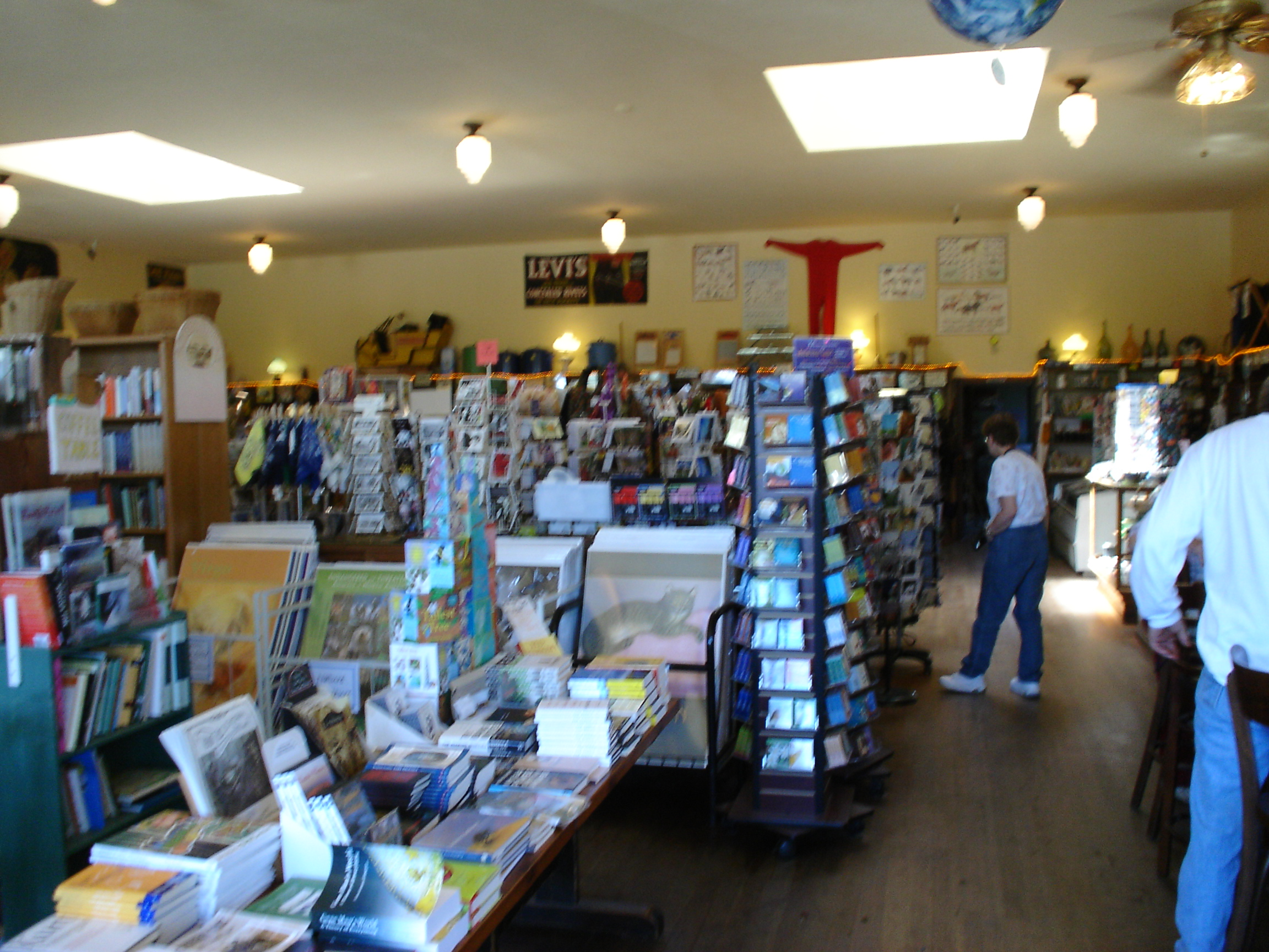 Interior of San Gregorio General Store, San Gregoria, Califonia